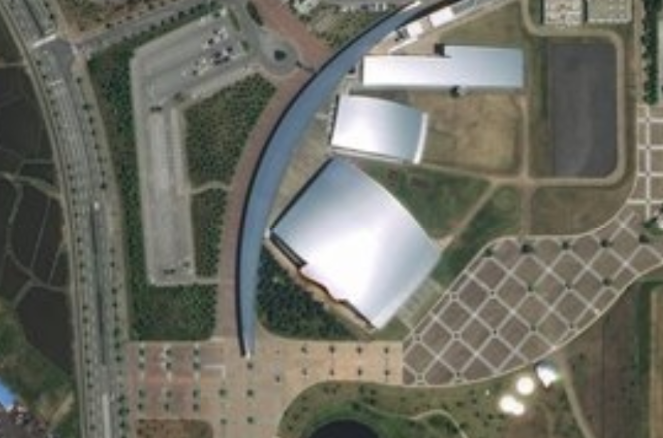 Satellite views, Maeda Arena